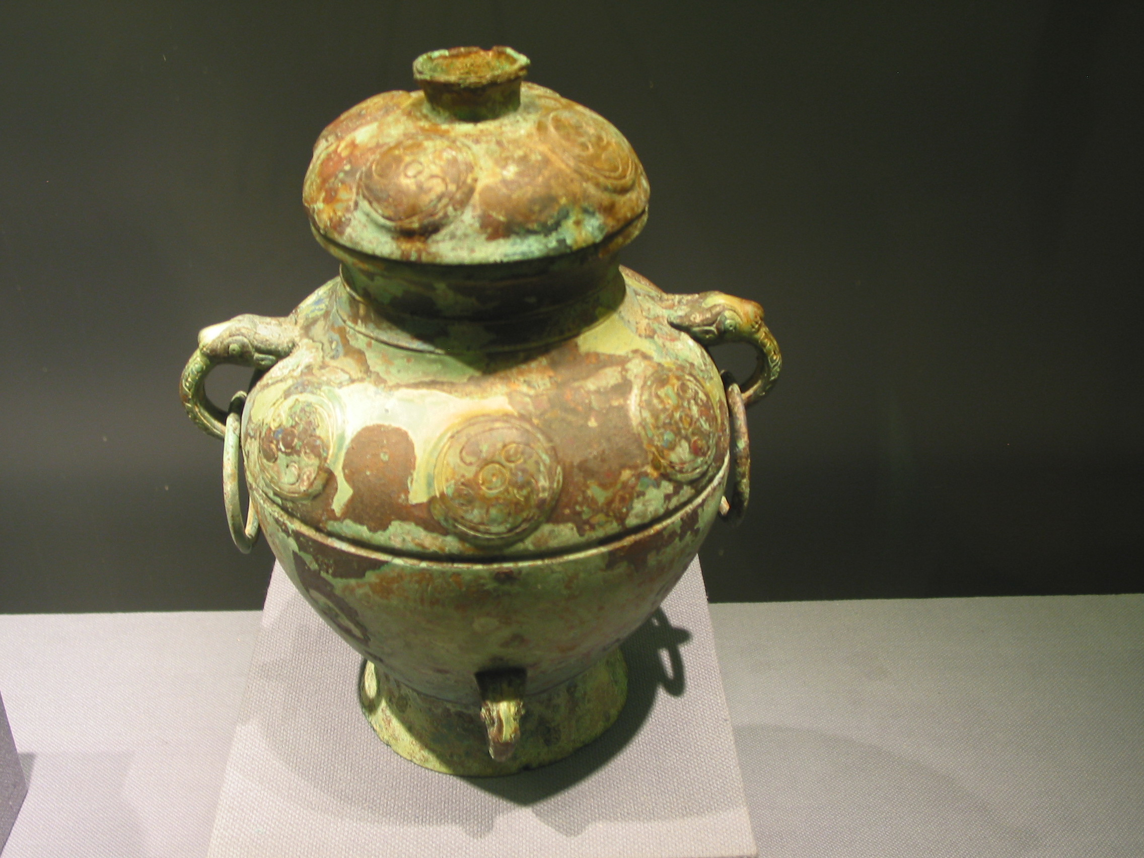 Ke lei pot (克罍) in Capital Museum, Beijing, China, Zhou Dynasty.